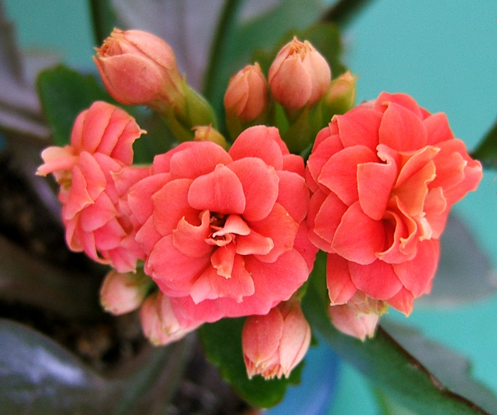 Flaming Katy